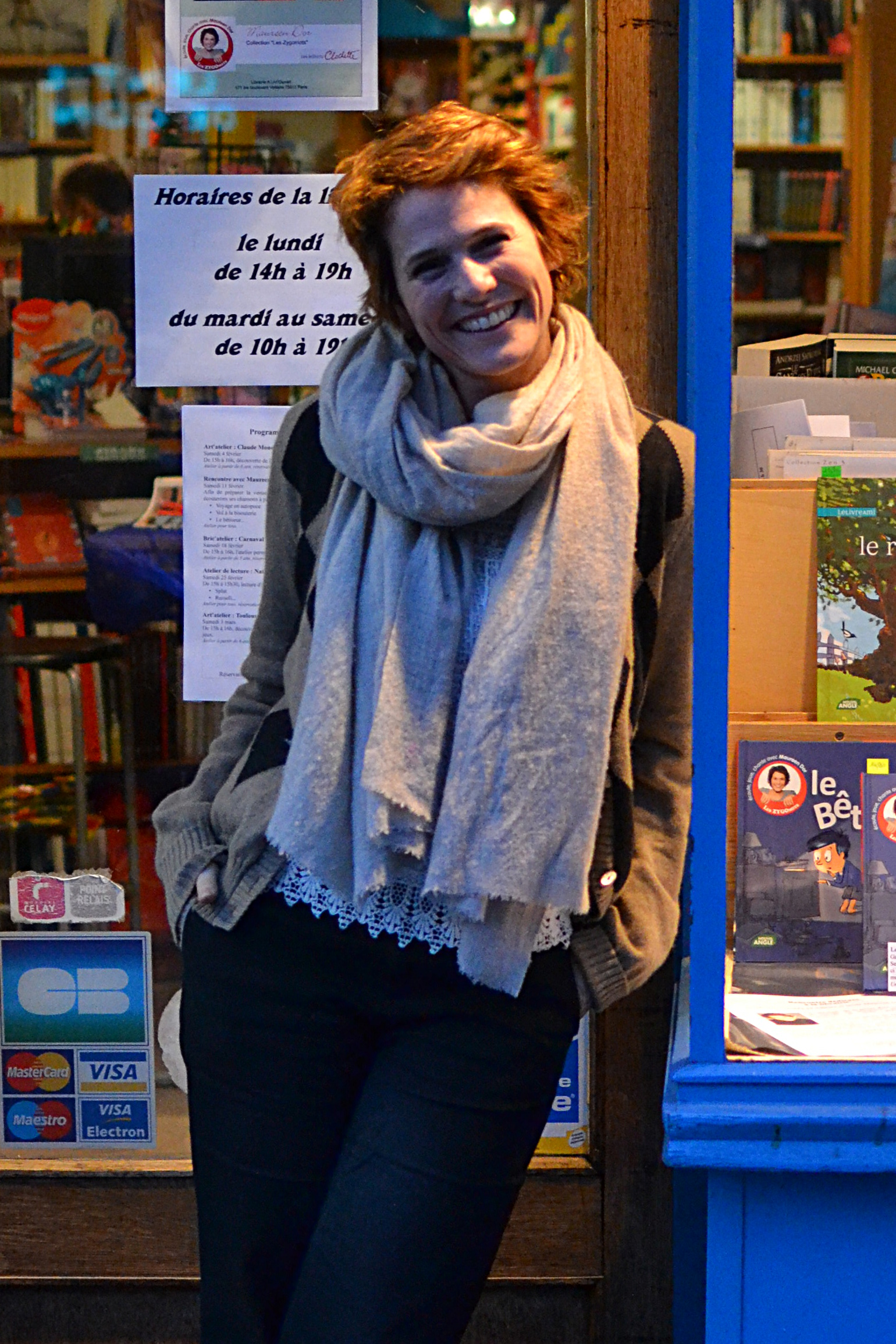 Maureen Dor during a book signing session in a parisian bookstore